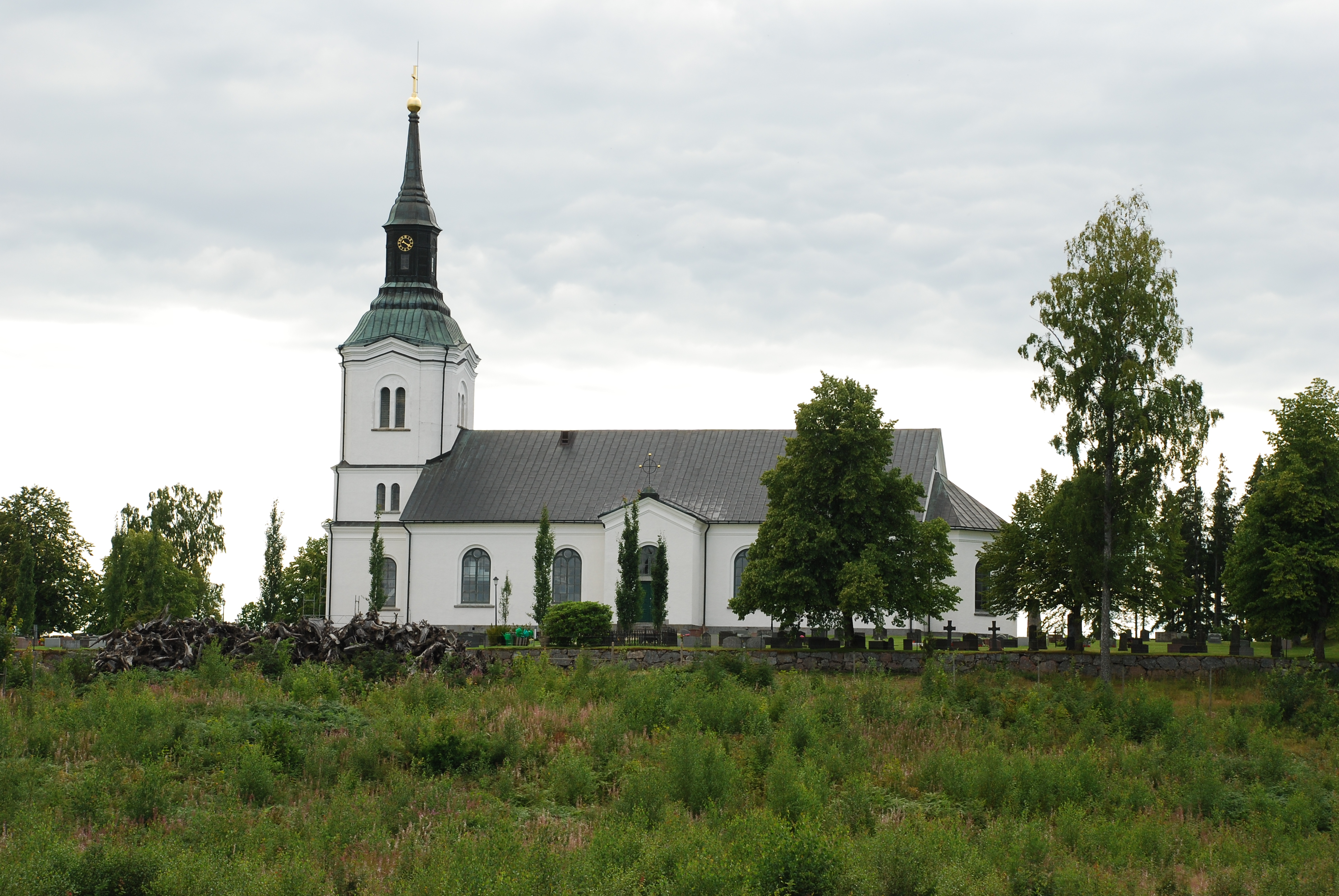 The church of Tolg